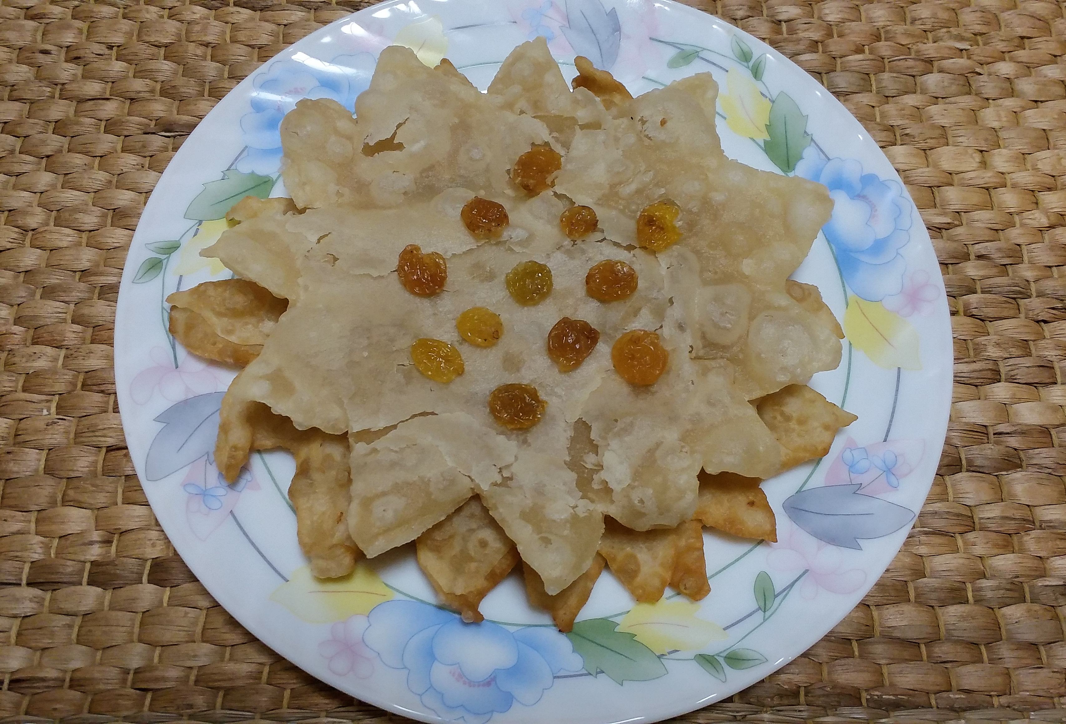 Padmaluchi